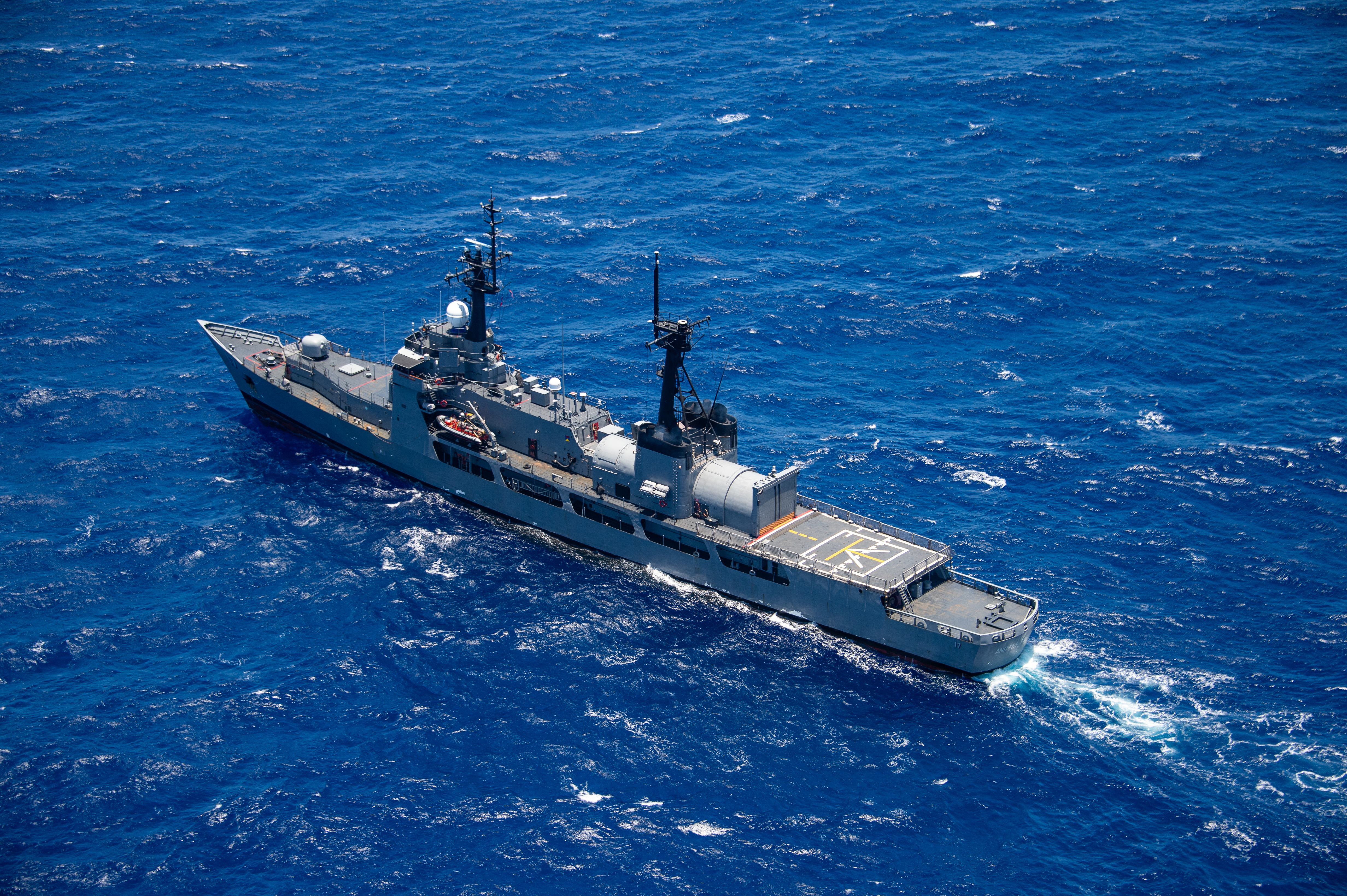 PACIFIC OCEAN (July 26, 2018) – Philippine Navy frigate BRP Andrés Bonifacio (FF 17) participates in a group sail during the Rim of the Pacific (RIMPAC) exercise off the coast of Hawaii, July 26. Twenty-five nations, 46 ships and five submarines, and about 200 aircraft and 25,000 personnel are participating in RIMPAC from June 27 to Aug. 2 in and around the Hawaiian Islands and Southern California. The world's largest international maritime exercise, RIMPAC provides a unique training opportunity while fostering and sustaining cooperative relationships among participants critical to ensuring the safety of sea lanes and security of the world's oceans. RIMPAC 2018 is the 26th exercise in the series that began in 1971. (U.S. Navy photo by Mass Communication Specialist 1st Class Arthurgwain L. Marquez/Released)